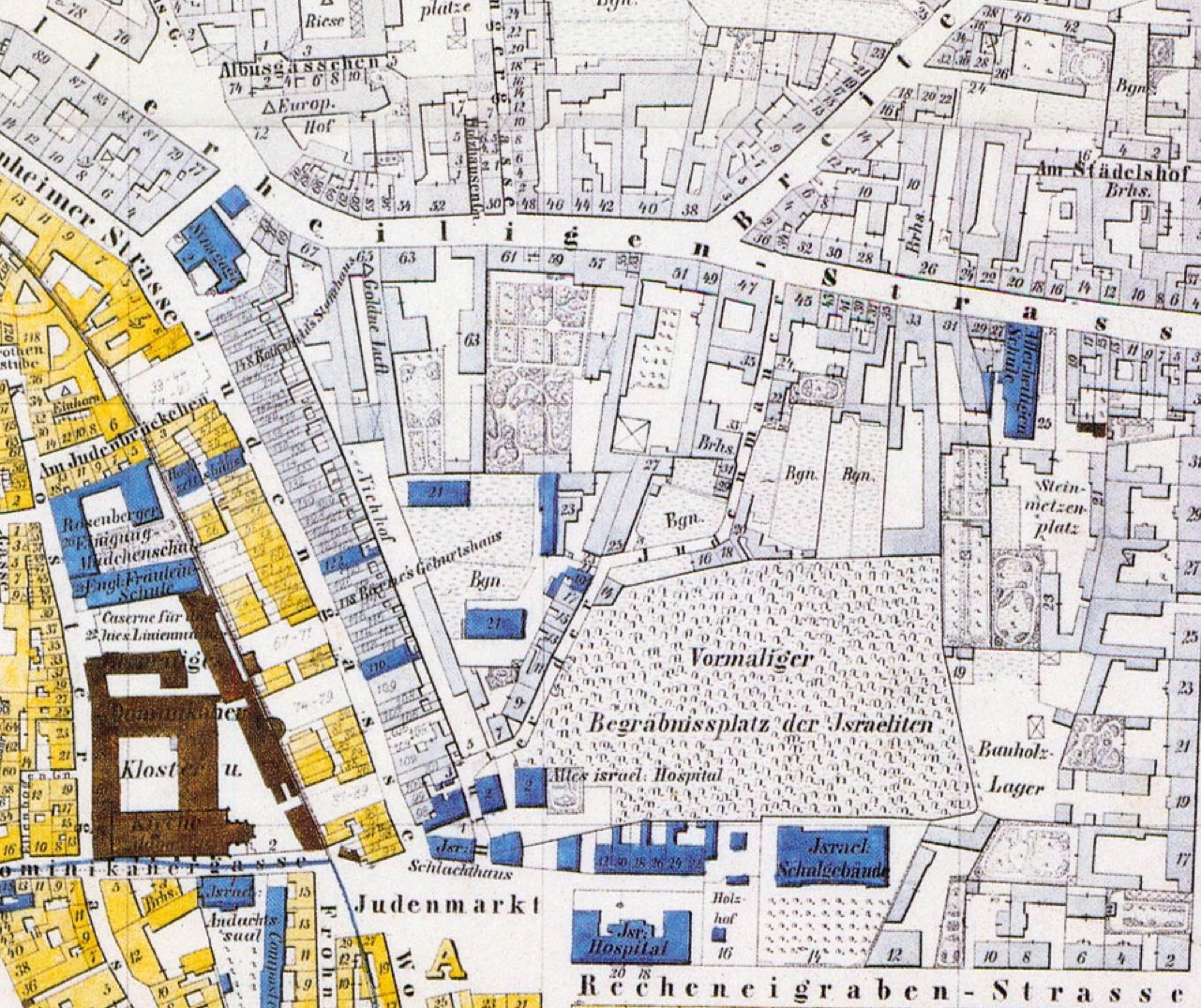 Crop of historical drawing, city of Frankfurt am Main, Hesse, Germany by Julius Eduard Foltz-Eberle (1819–1903), focus on old jewish cemetery from 1180, Judengasse, Judenmarkt